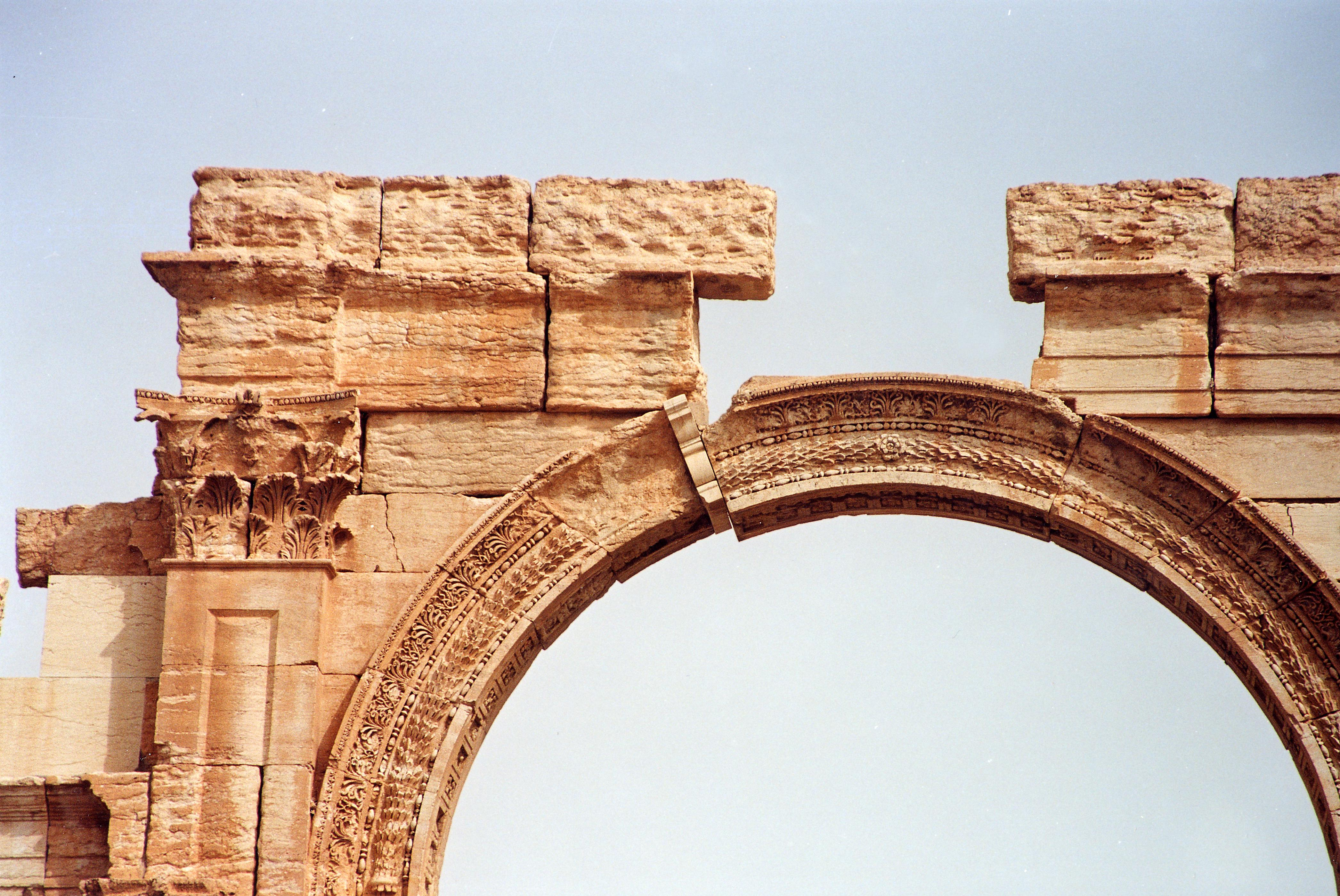 Monumental Arch of Palmyra, Palmyra in 2002